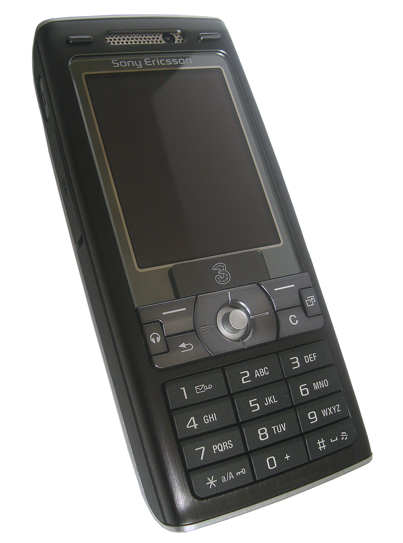 Image of my K800i, taken by myself and edited using Photoshop CS3.